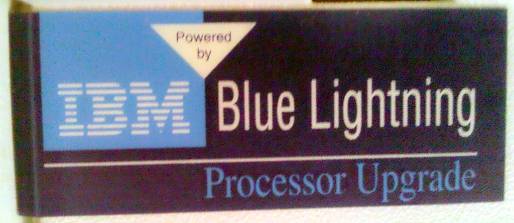 A picture of the 'Blue Lightning' upgrade badge that shipped with some CPU upgrades released by IBM.